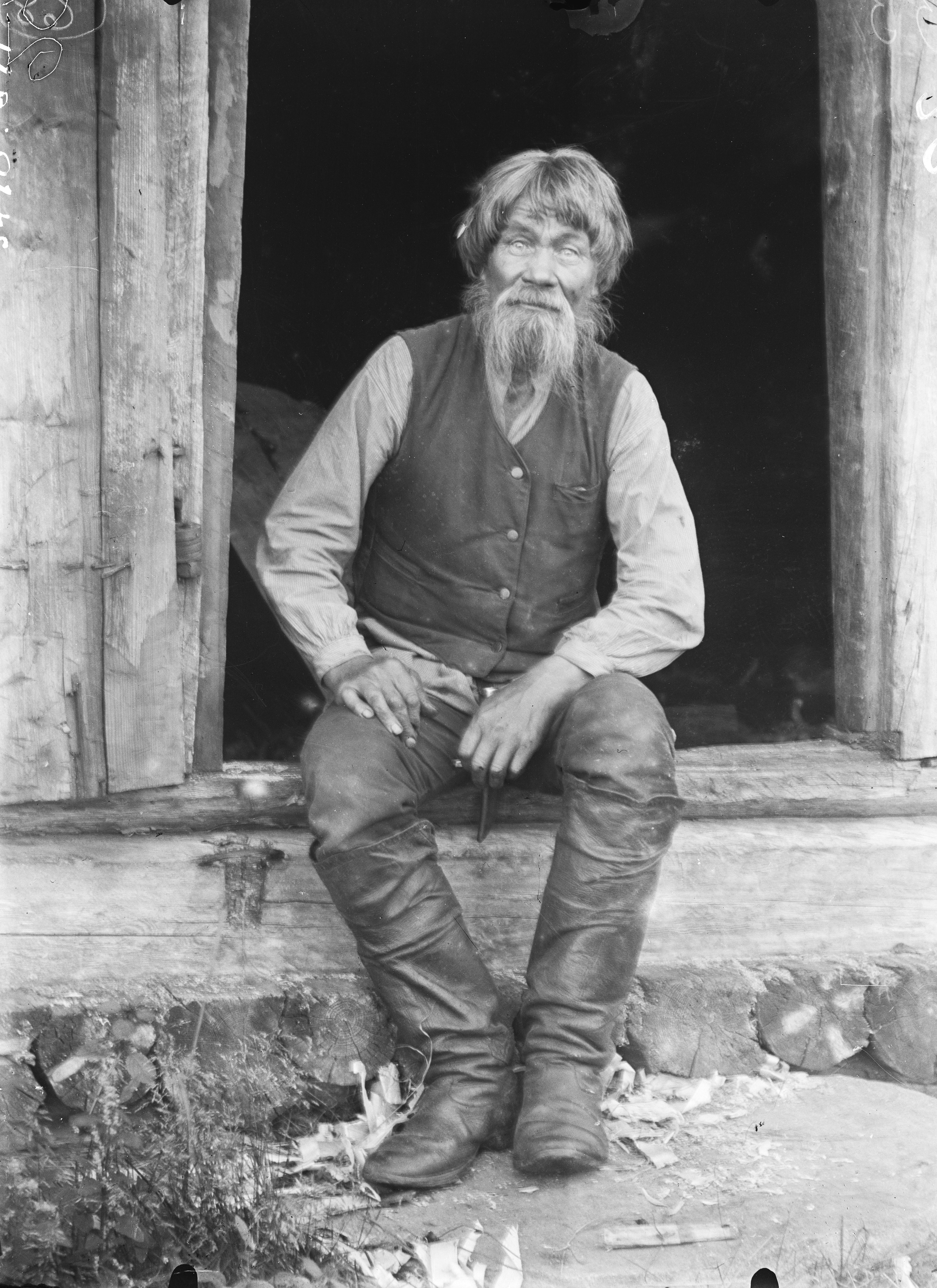 Photograph of the Finnish kantele player Jehkin Iivana Shemeikka (1843–1911) in Suistamo.